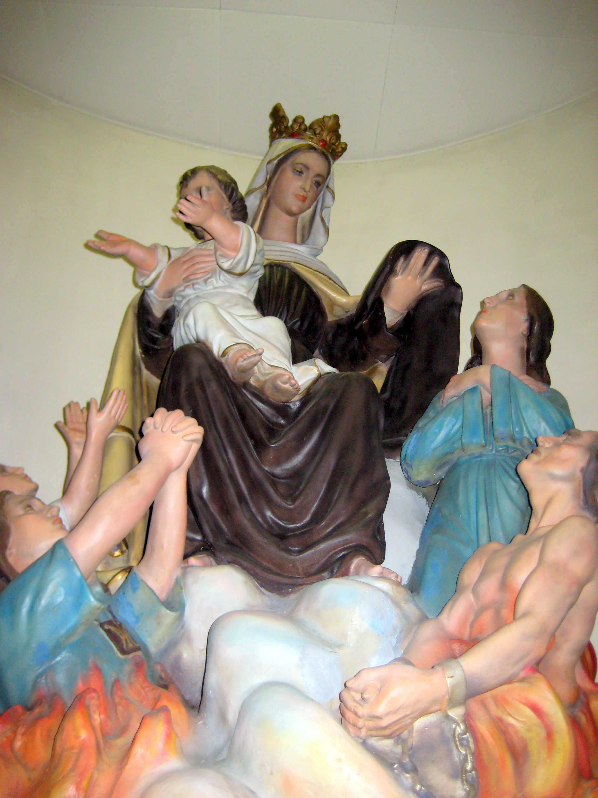 Statue of Our Lady of Mount Carmel with Infant Jesus at Saint Leonard of Port Maurice Church in the North End of Boston. One of the souls in purgatory appears to be wearing a Scapular of Our Lady of Mount Carmel. January 2009 photo by John Stephen Dwyer